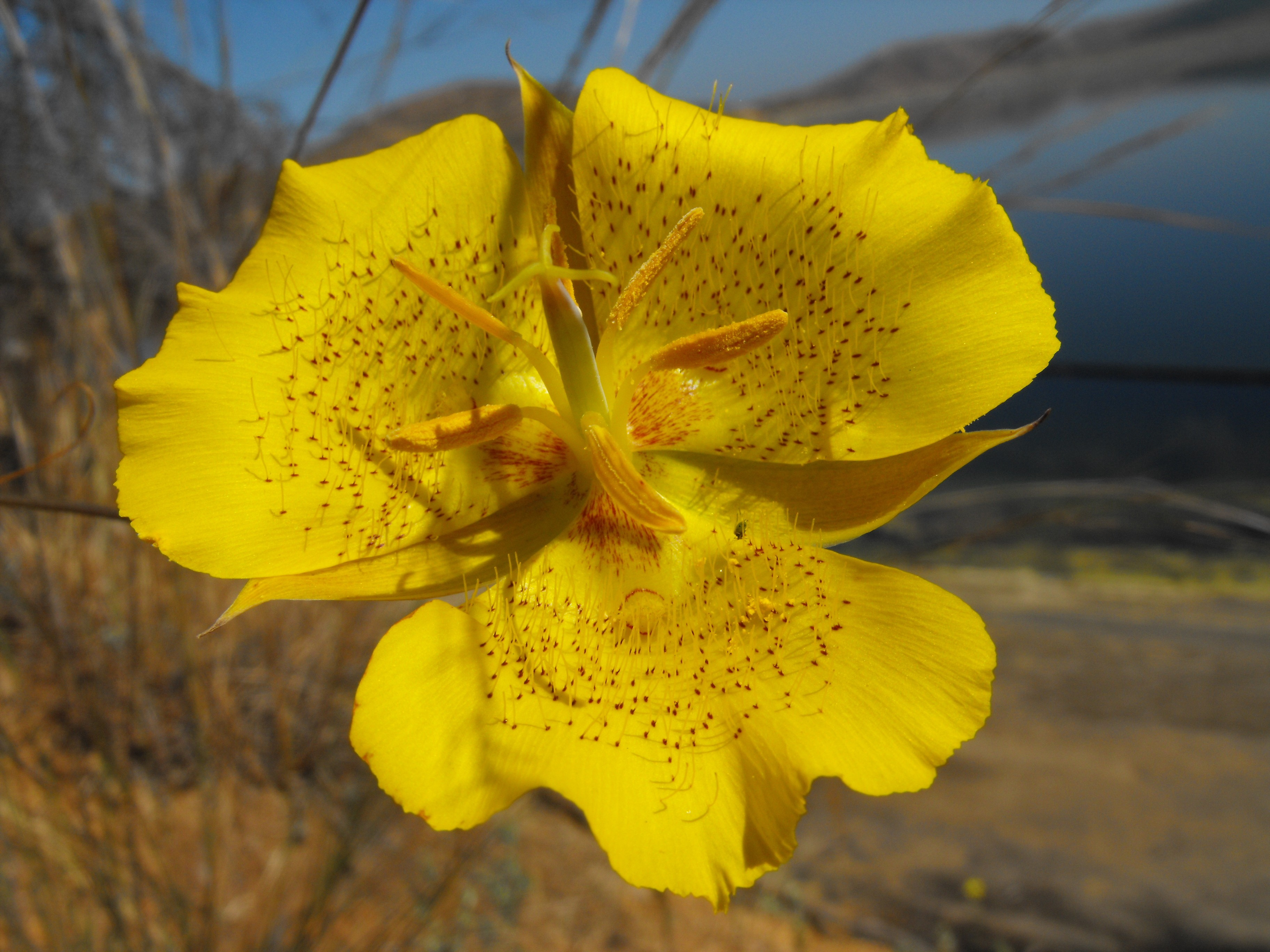 Calochortus weedii — Weed's mariposa lily . At Lake Poway, in San Diego County, Peninsular Ranges, Southern California.